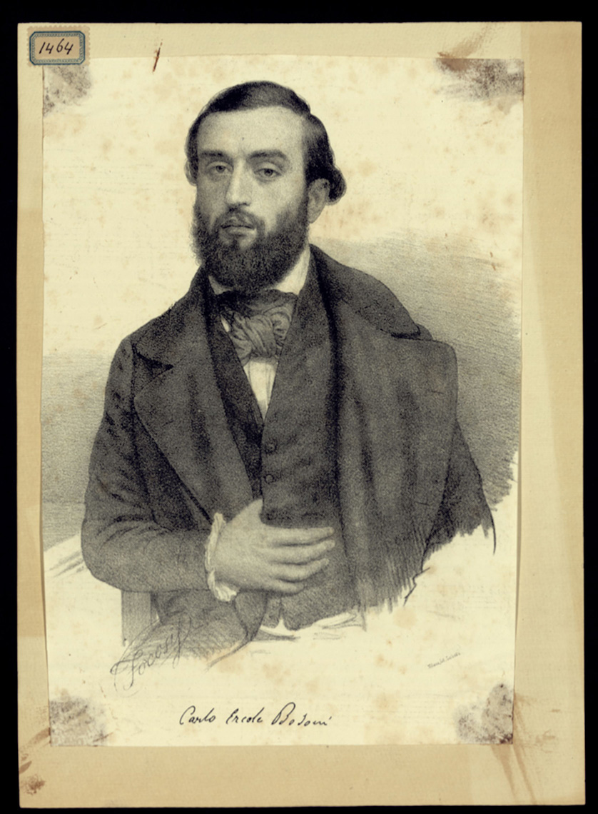 Portrait of Carlo Ercole Bosoni, composer (1835-1887), before 1862.